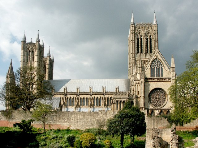 The Cathedral Church of the Blessed Virgin Mary, Lincoln Photographed from near the Old Palace.